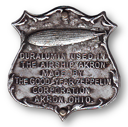 Sample of Duralumin used in the construction of the US Navy airship USS Akron (ZRS-4) manufactured by the Goodyear Zeppelin Co., Akron, OH.